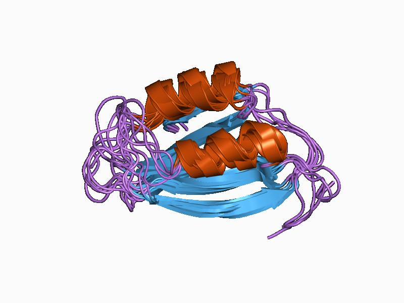 Cartoon representation of the molecular structure of protein registered with 1aps code.